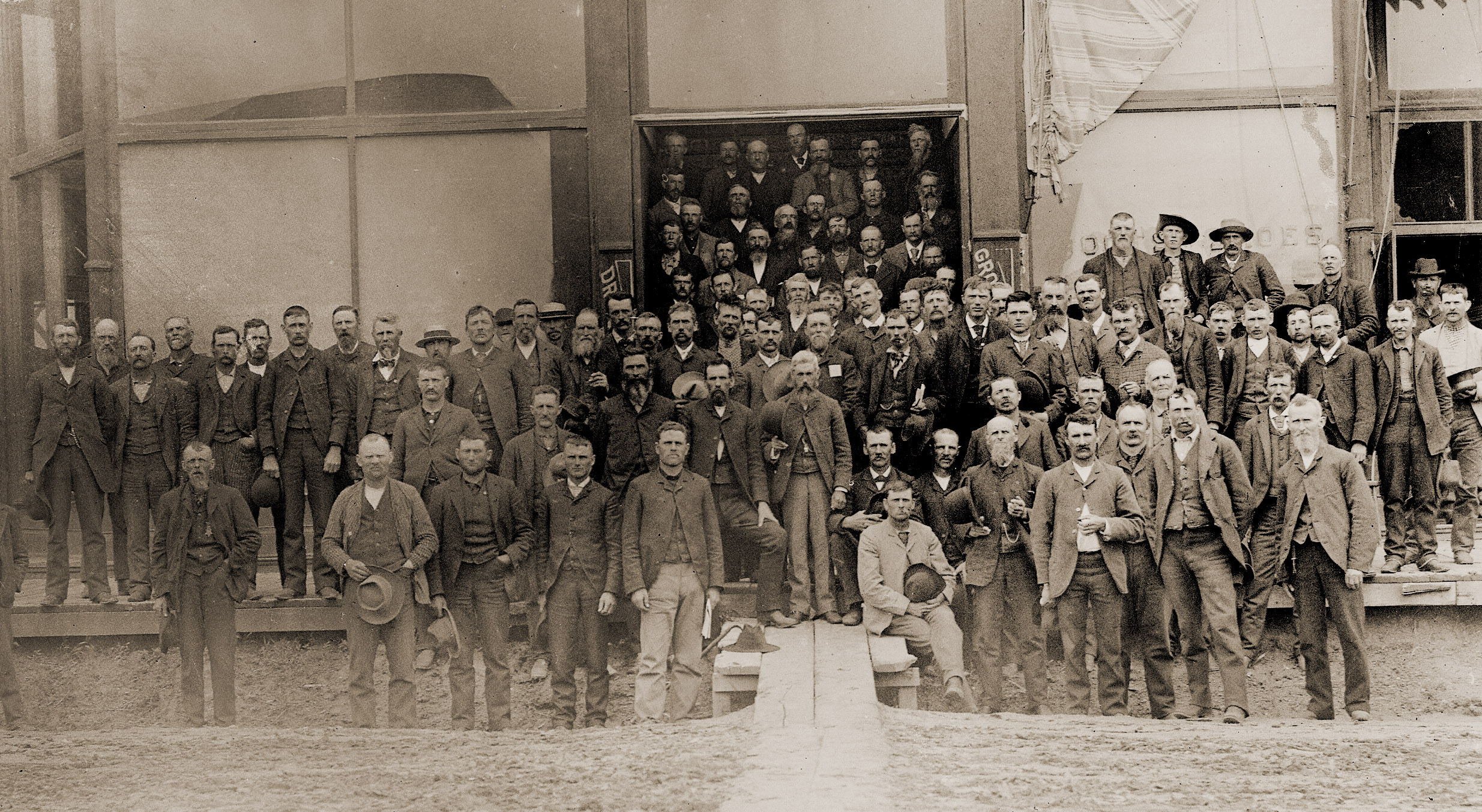 The Independent People's Party (Populist) Convention at Columbus, Nebraska, where Omer Kem was nominated for Congress, July 15, 1890. This version digitally edited by Tim Davenport for Wikipedia to restore burned out detail, crop extraneous material, and colorization to "warm" the image. No copyright claimed.